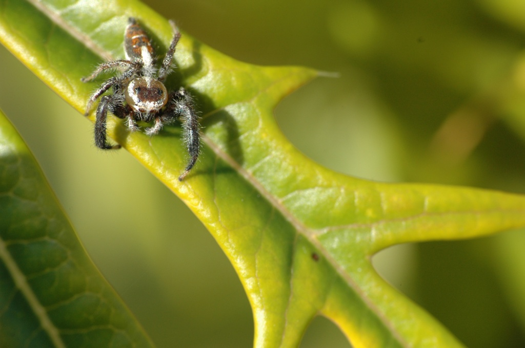 Thyene sp., Jumping spider